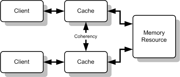 Cache Coherency Generic